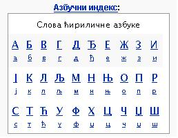 for category "Serbian language".